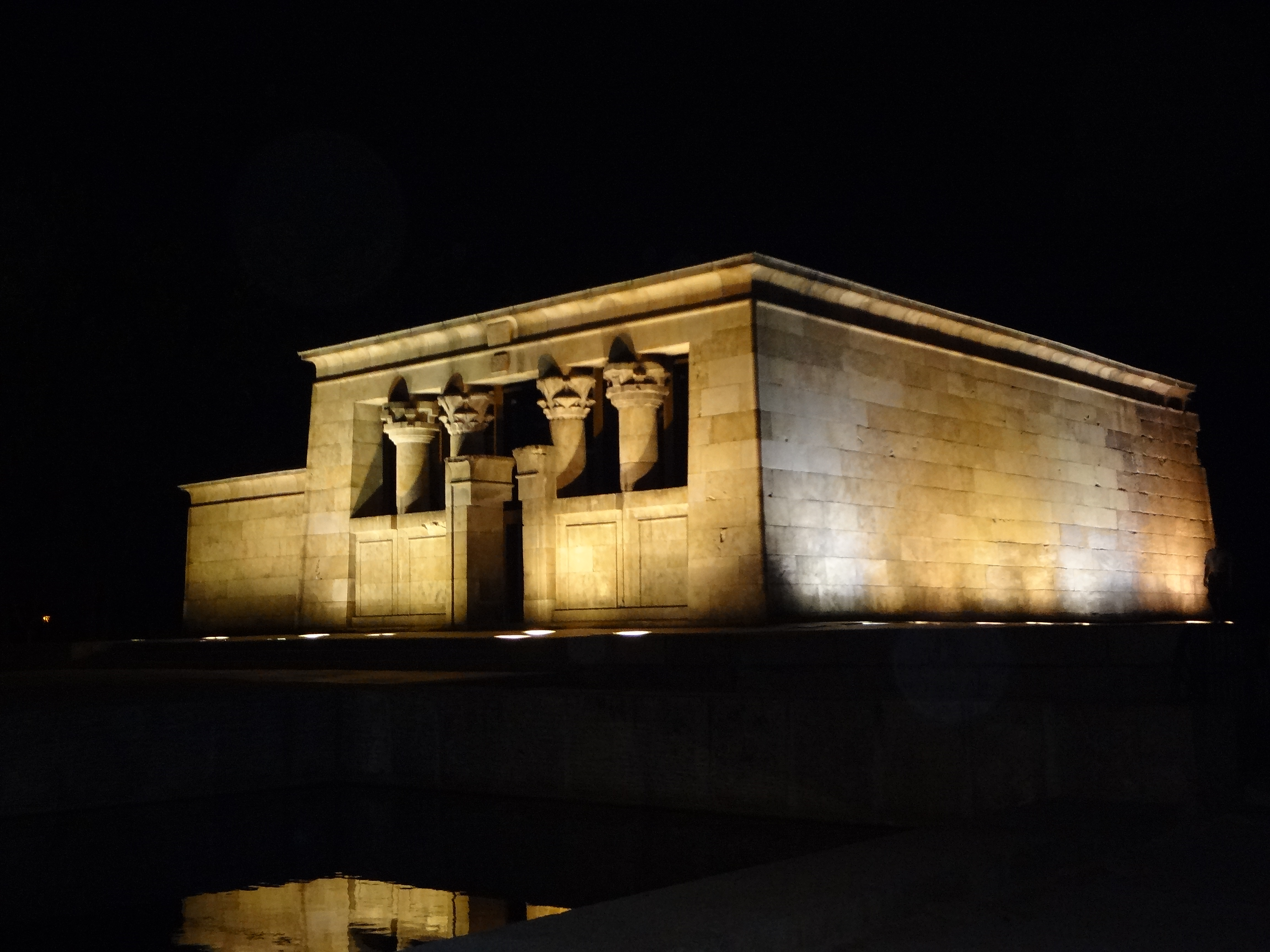 Temple of Debod at night in black and white